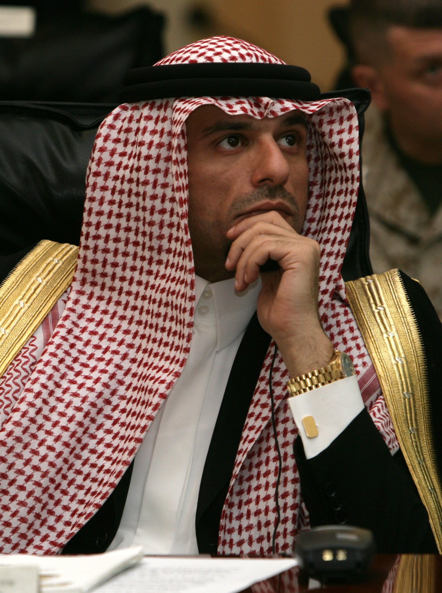 Cropped image of Ali Hatem Suleiman; an Iraqi Sheikh and politician.